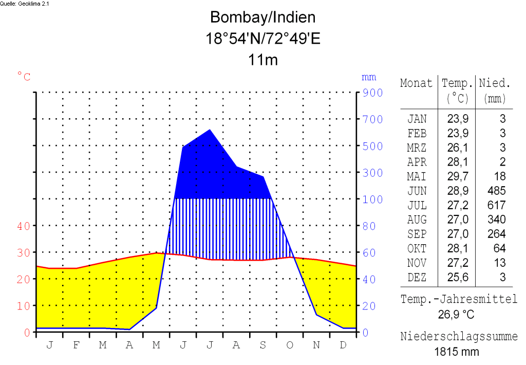 climate chart in the format by Walter and Lieth, metric, °Celsisus and millimeters, made with Geoklima 2.1